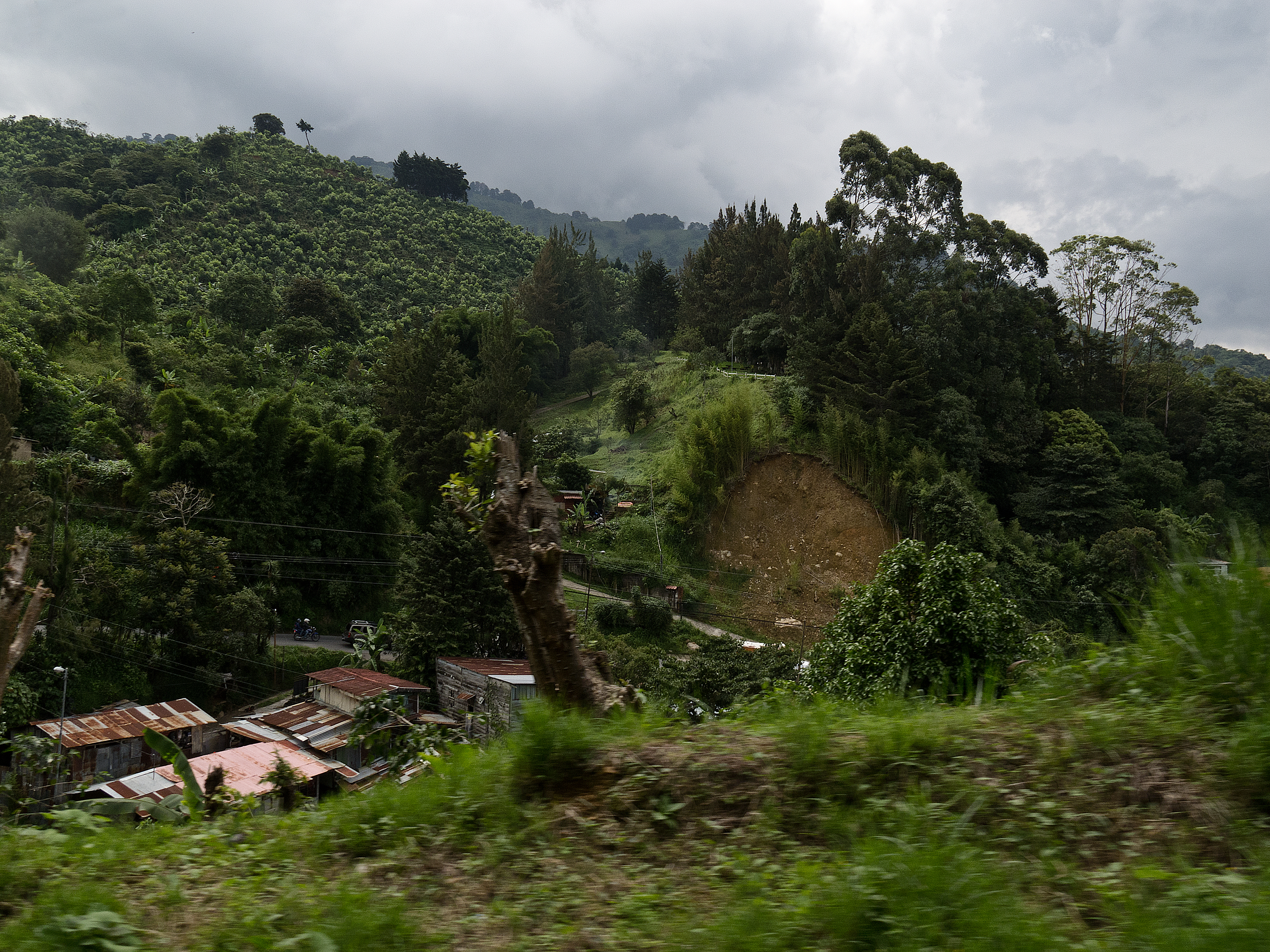 View of Asseri (canton) from the road, CR highway 209